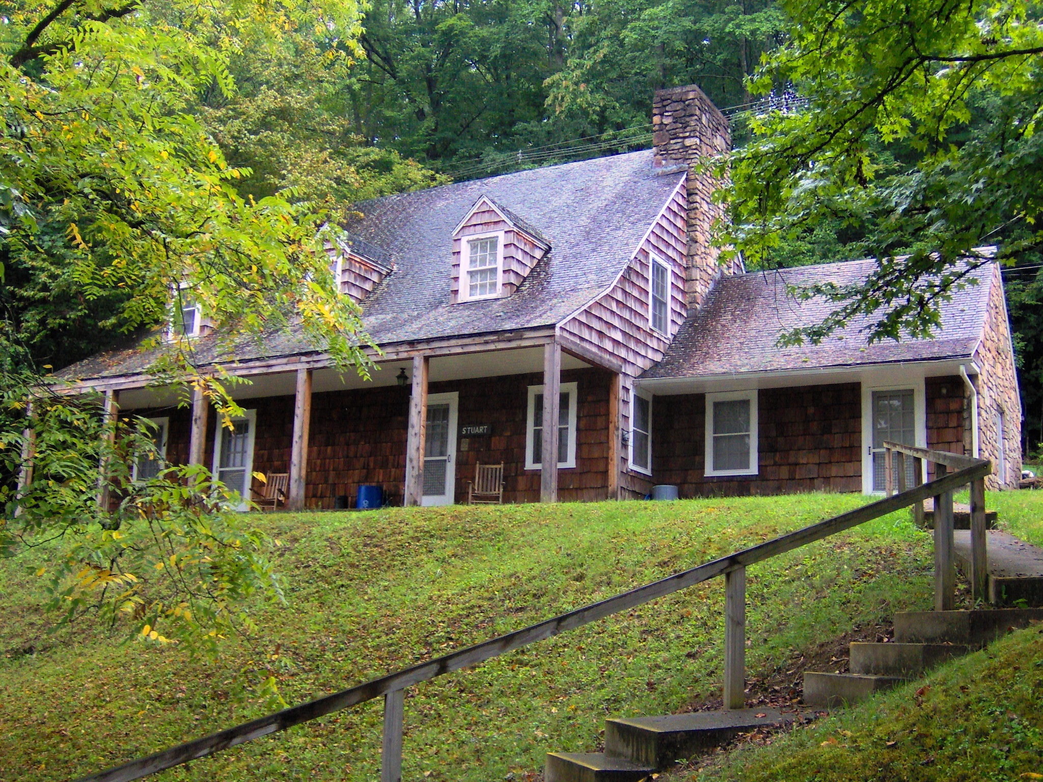 Stuart Dormitory on the Arrowmont School of Arts and Crafts campus in the U.S. city of Gatlinburg, Tennessee.